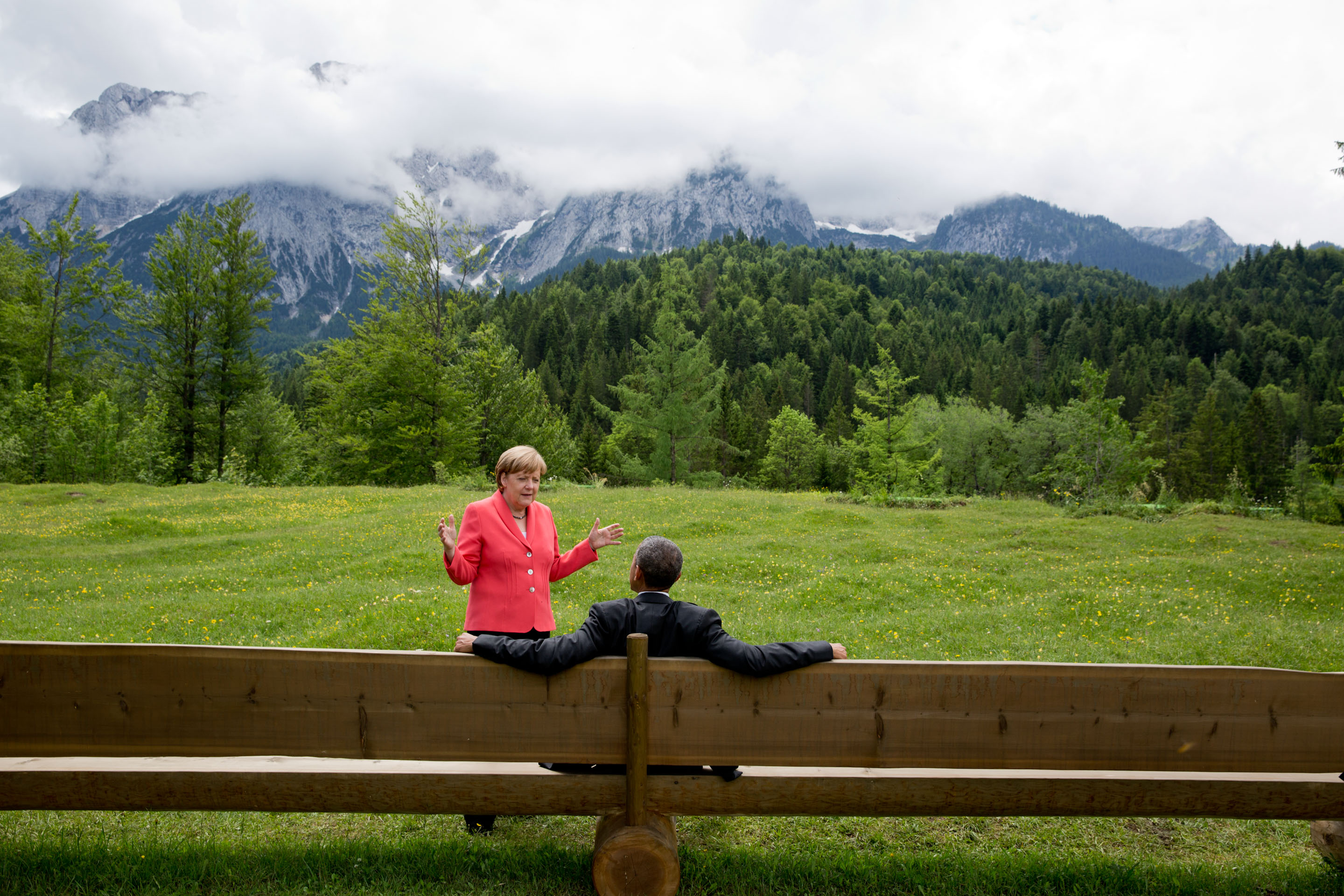 Barack Obama and Angela Merkel talking at the 41st G7 summit, Schloss Elmau, Germany